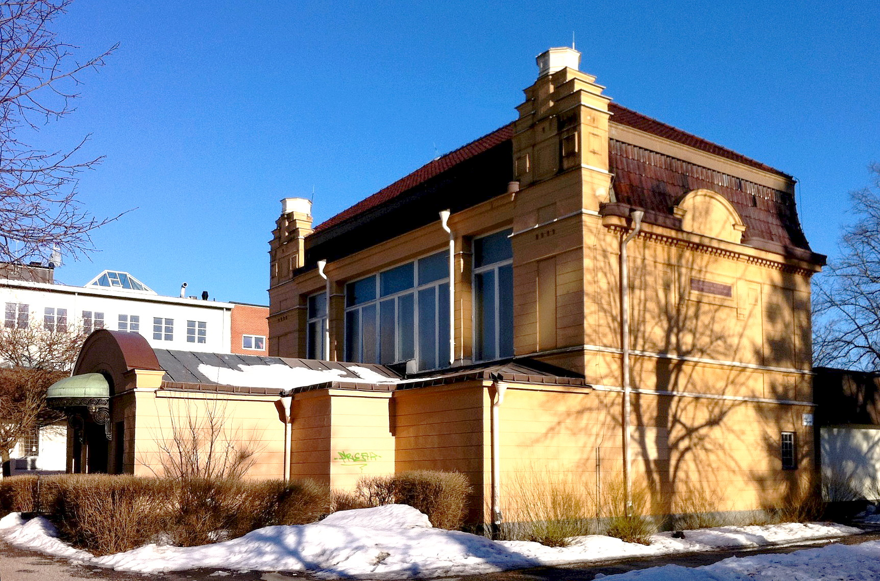 Biological museum in Södertälje, Sweden, architect Hjalmar Cederström